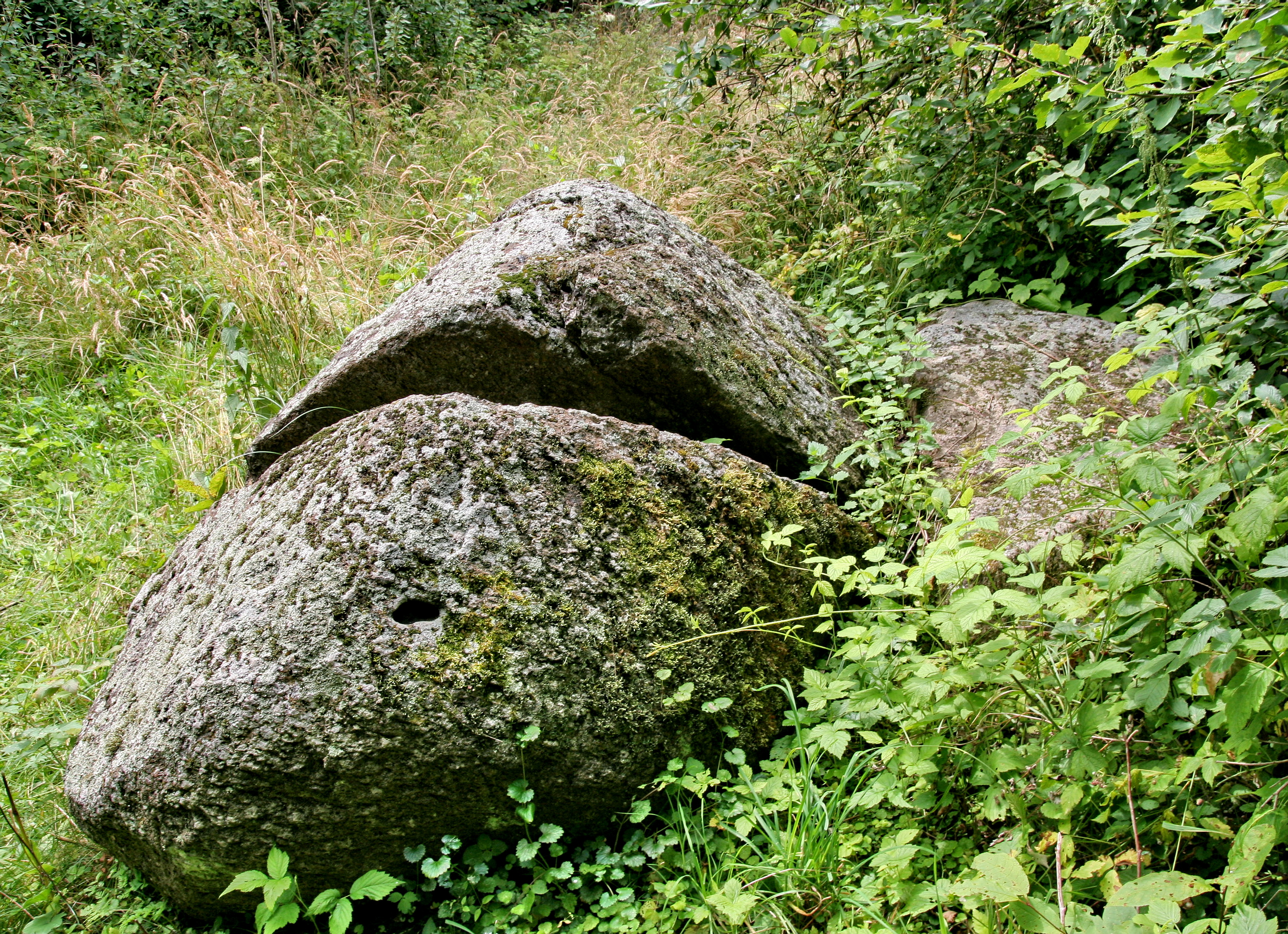 A stone with imprint near Bečiai village, Lithuania